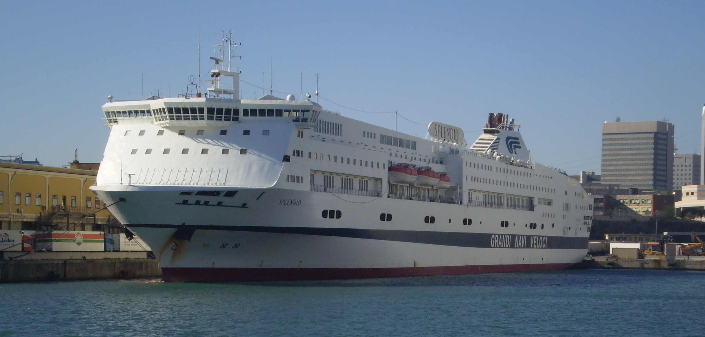 Cruiseferry Splendid of Grandi Navi Veloci into Genova harbour